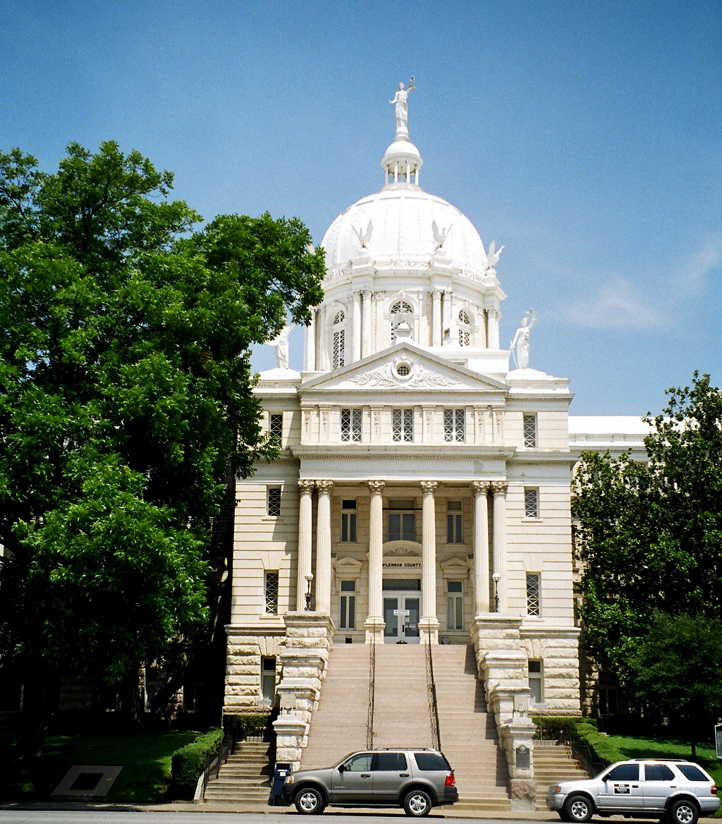 The McLennan County, Texas courthouse located in Waco, Texas, United States. The courthouse was designated a Recorded Texas Historic Landmark in 1970 and was listed on the National Register of Historic Places on December 14 1978.